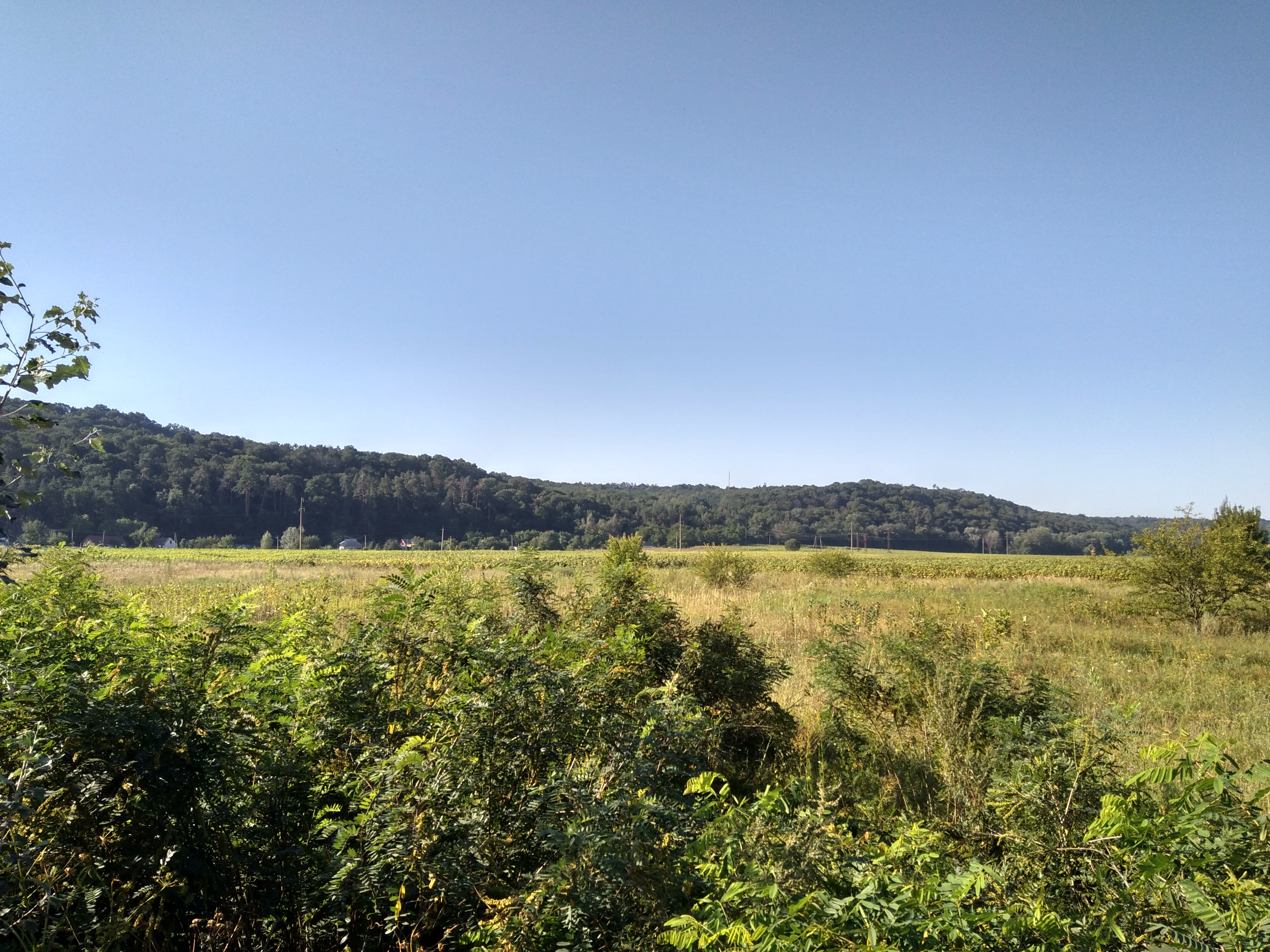 Mochnogory mountain (Cherkasy Raion, Cherkasy Oblast)